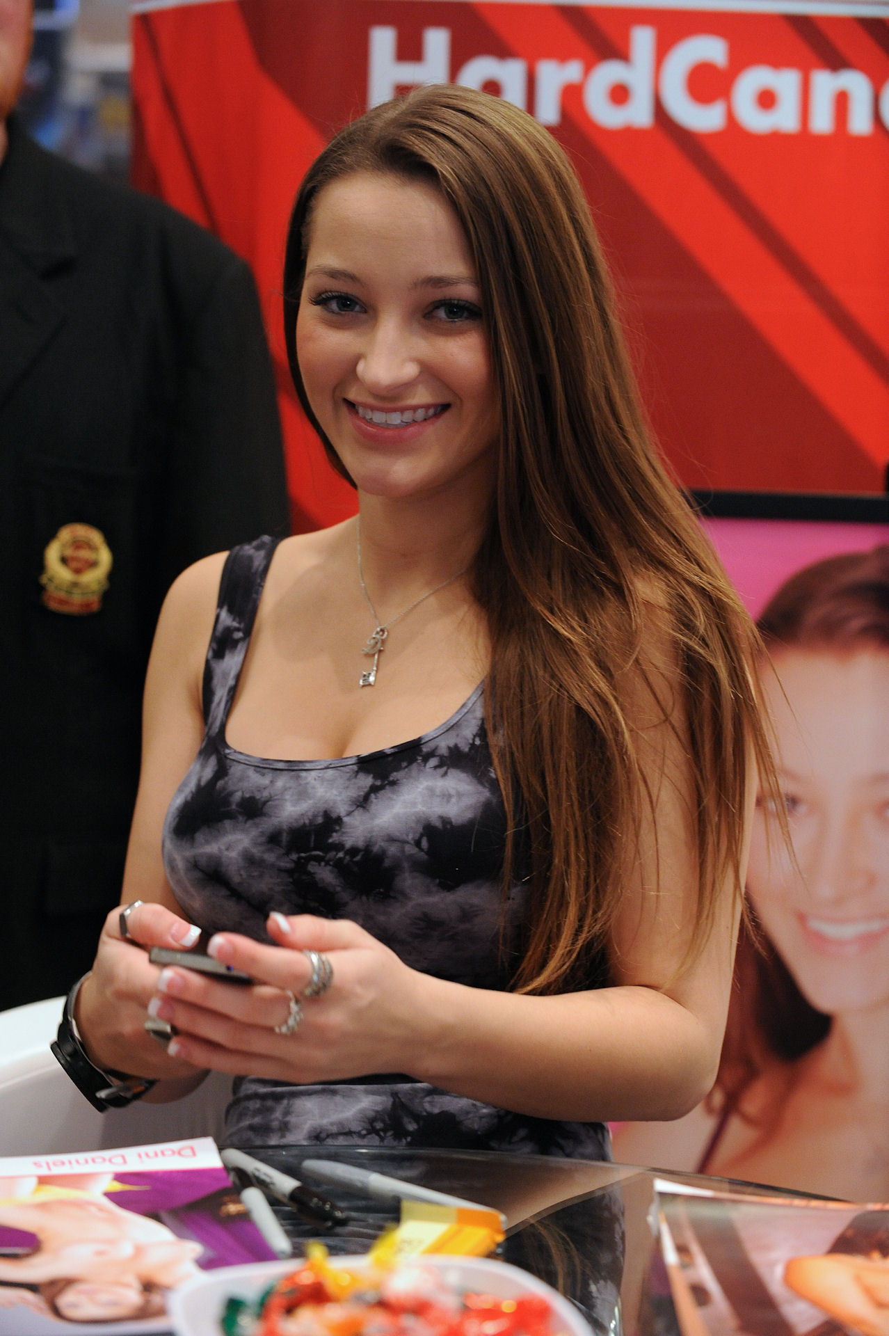 Dani Daniels at AVN Adult Entertainment Expo 2012